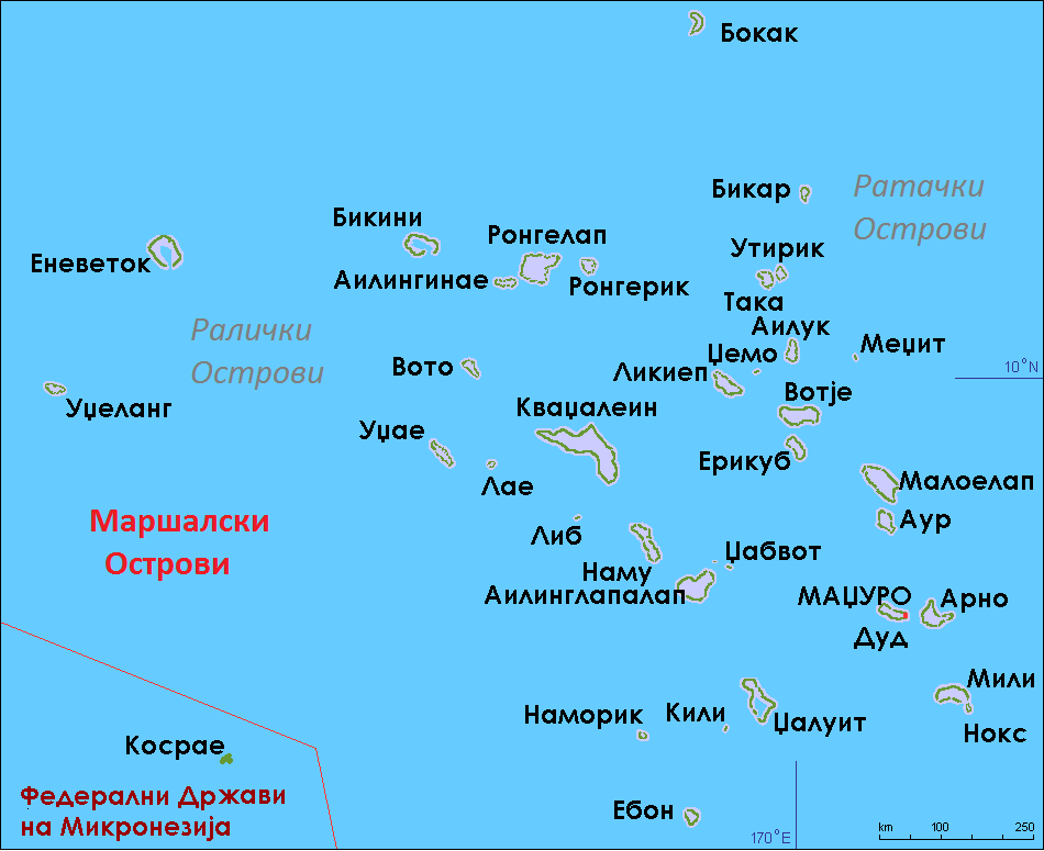 Map of the Marshall Islands on Macedonian language.